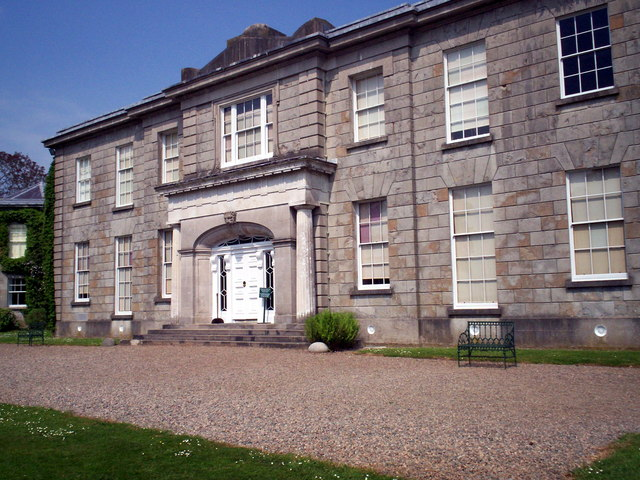 The Argory, Derrycaw Road